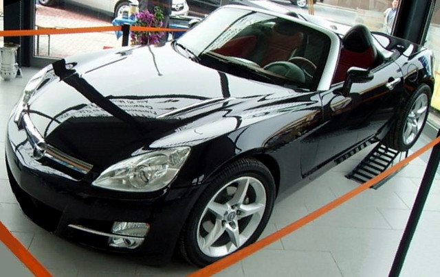 The new Opel GT